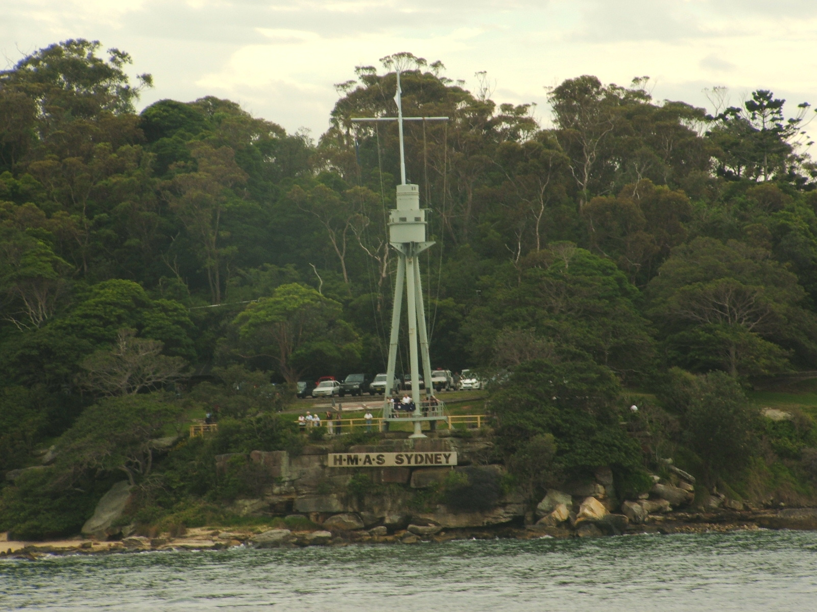 The foremast of the light cruiser HMAS Sydney (launched 1912), located at Bradley's Head, New South Wales, as a monument to the ship's action against the German light cruiser Emdem, and to all RAN sailors killed in action. Spectators are using the foremast and surrounds to observe a ceremonial fleet entry into Sydney Harbour. Taken from a Manly-bound Manly ferry.